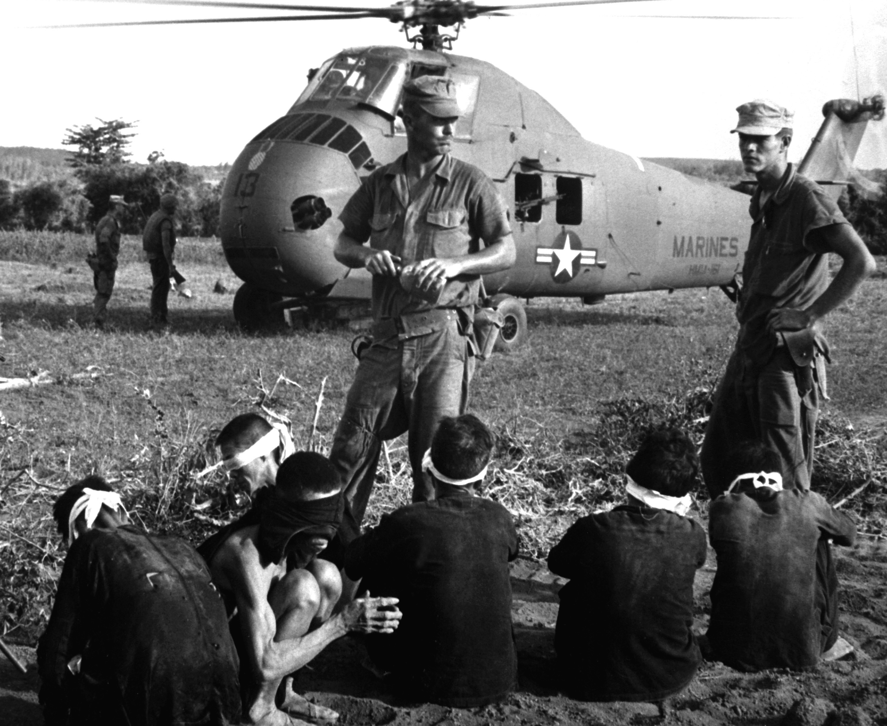 Viet Cong prisoners wait in front of a U.S. Marine Corps Sikorsky UH-34D Seahorse helicopter of Marine medium transport squadron HMM-161, during "Operation Starlight" south of Chu Lai, South Vietnam, on 1 August 1965.